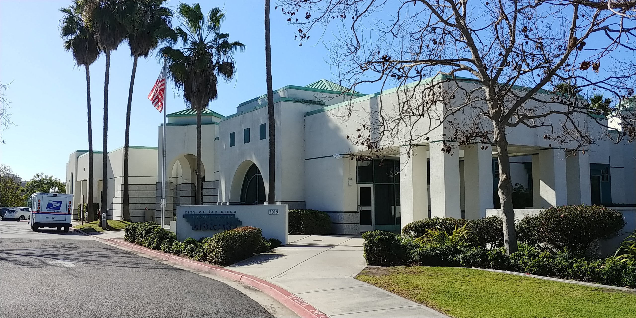 Carmel Valley Library, San Diego, California, US.